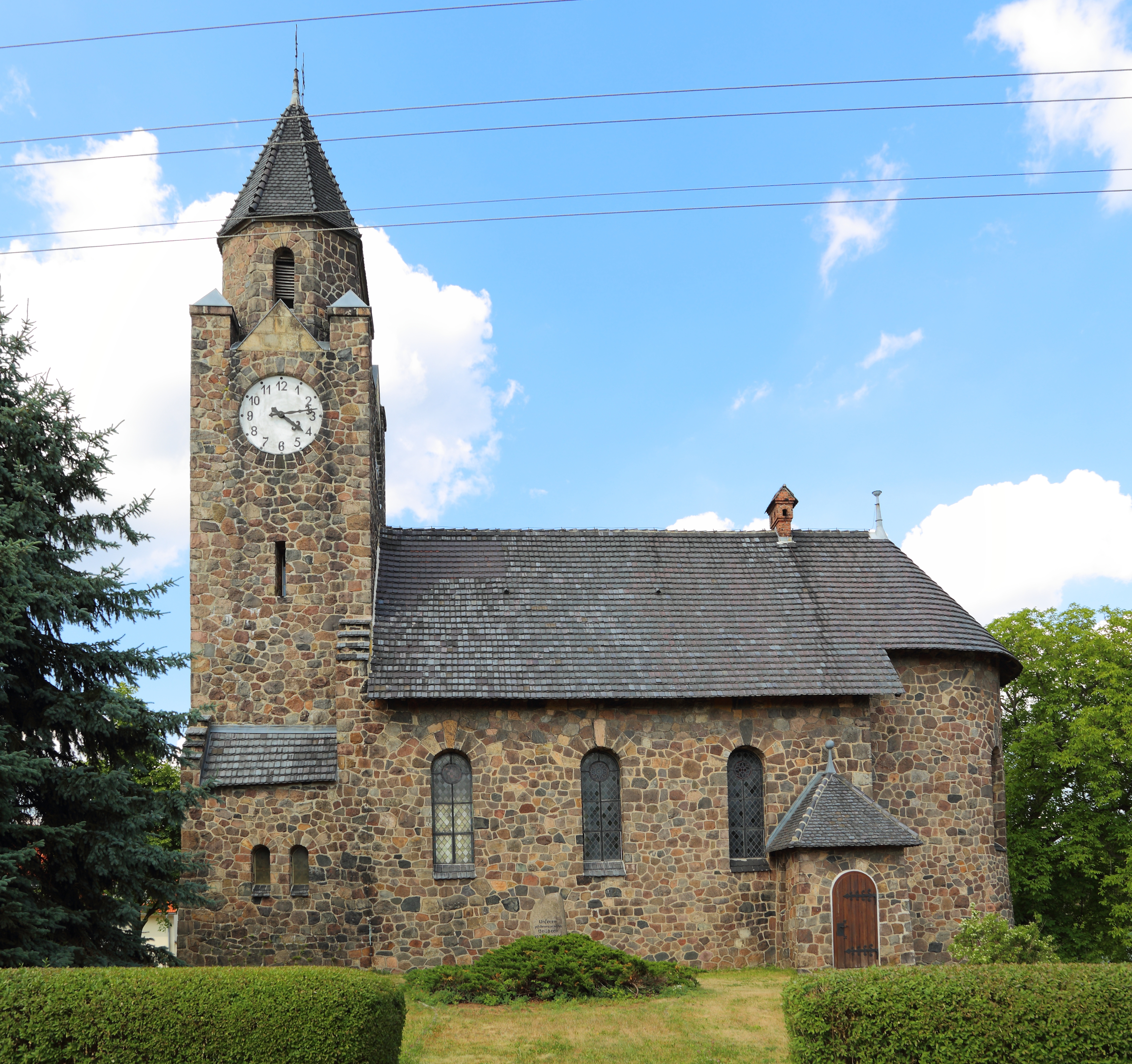 The Protestant Village Church (Dorfkirche) in Mahlsdorf, district of Golßen, Landkreis Dahme-Spreewald, Brandenburg, Germany.